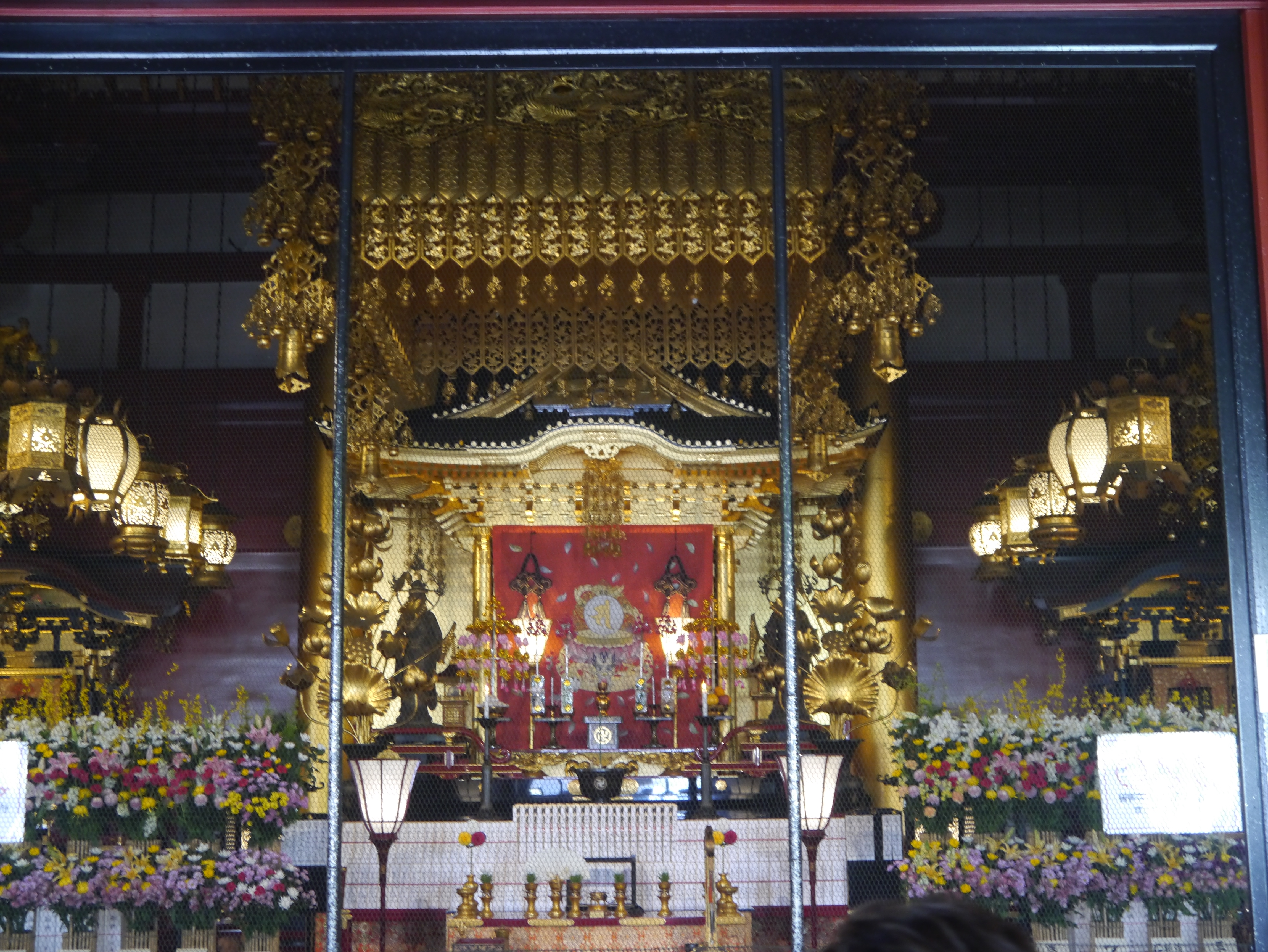 Altar of the Main Hall of the Senso Temple, Tokyo/Tokyo Prefecture, Japan